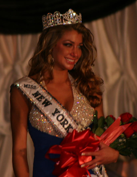 Tatiana Pallagi takes her first walk after winning the Miss New York Teen USA 2007 pageant